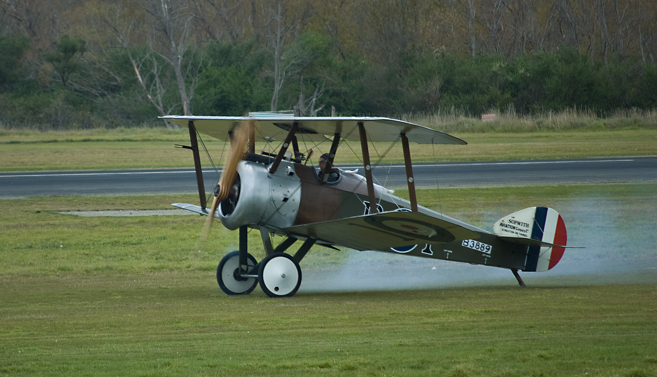 Sopwith Camel taking off, Masterton, New Zealand, April 2009.